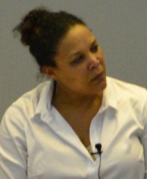 Theater of War actors, Chris Henry Coffee, Reg E. Cathey, and Linda Powell, act out portions of the play “Ajax” at Osan Air Base, Republic of Korea, May 5, 2017. Theater of War relates the themes and hardships of combat in an ancient age with situations modern military personnel still deal with today. (U.S. Air Force photo by Staff Sgt. Alex Fox Echols III)